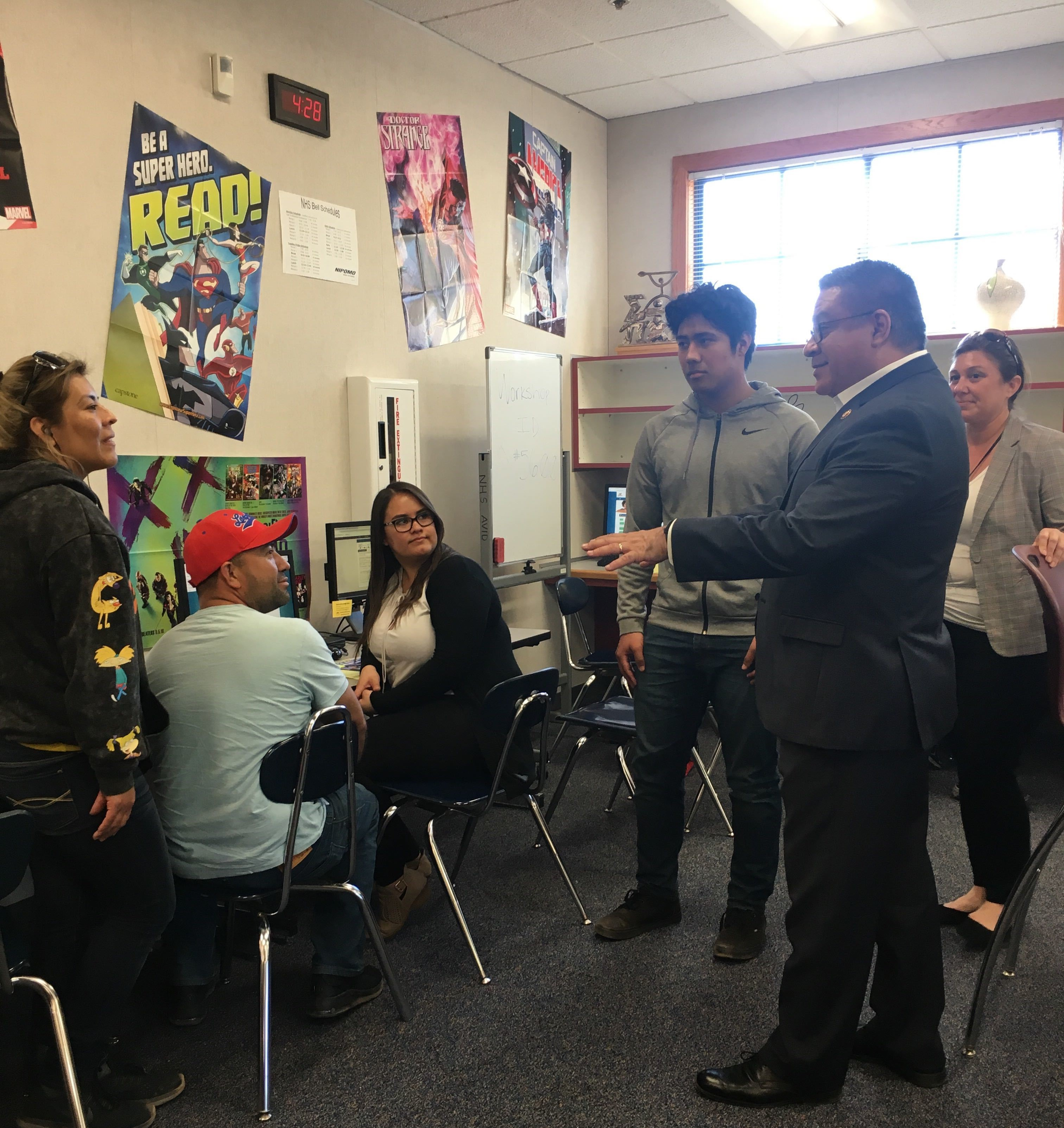 Applying for @FAFSA can raise a lot of questions, especially for first generation students like me. Great time at the Cash for College workshop at @NipomoHS last night. Students deserve to know all the opportunities available for them to pursue higher education.